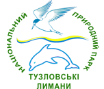 Tuzly Lagoons National Nature Park